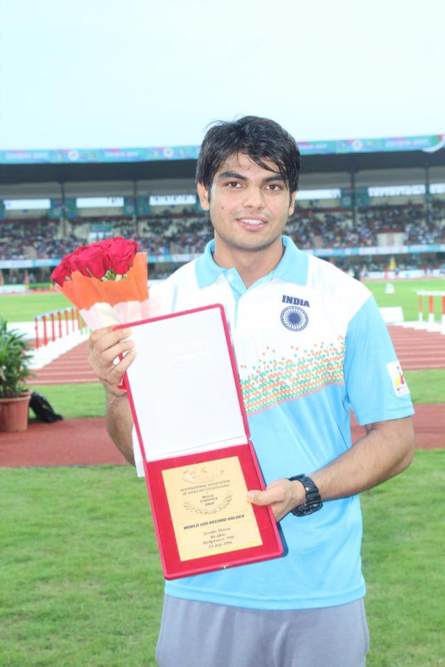 Athletes during 22nd Asian Athletics Championships in Bhubaneswar.